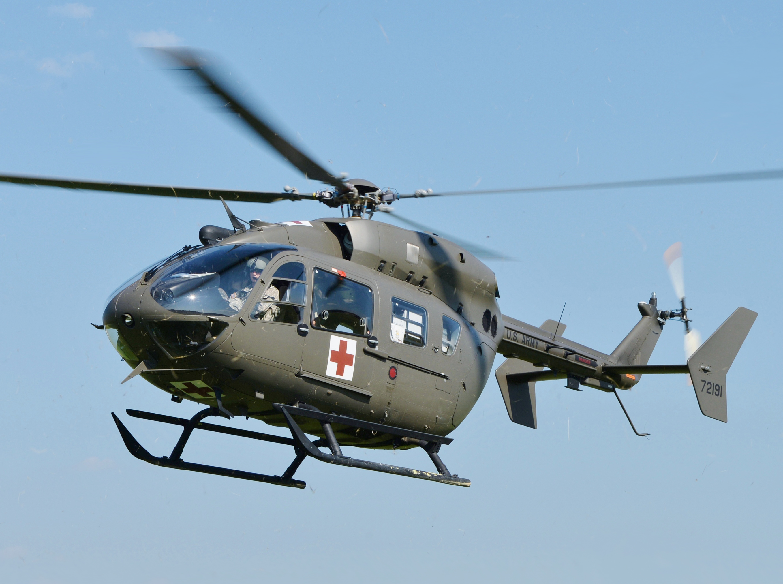 A Nebraska Army National Guard UH-72 Lakota Helicopter from the D Company 1-376th Aviation Battalion, piloted by 1st Lt. Jacob Lee and Chief Warrant Officer 2, transports a simulated rescue patient at National Guard training exercise PATRIOT North 2016 at Volk Field Air National Guard Base, Wisc. July 18, 2016. PATRIOT is an annual exercise held at Volk Field to test the National Guardâ€™s capabilities and develop working relationships with first responders and government agencies. (U.S. Air National Guard photo by Senior Master Sgt. David H. Lipp)